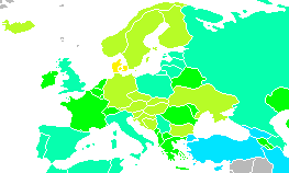 Derivative work of public domain map